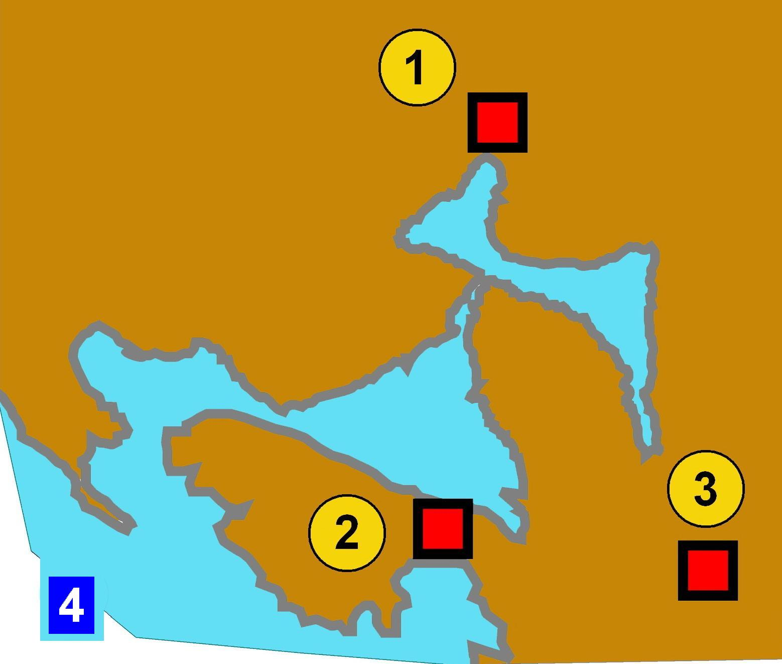 Bay of Kotor. Illyrian fortresses: 1) Risan 2)Gošići and 3)Kremalj (Mirac). 4) Adriatic Sea.